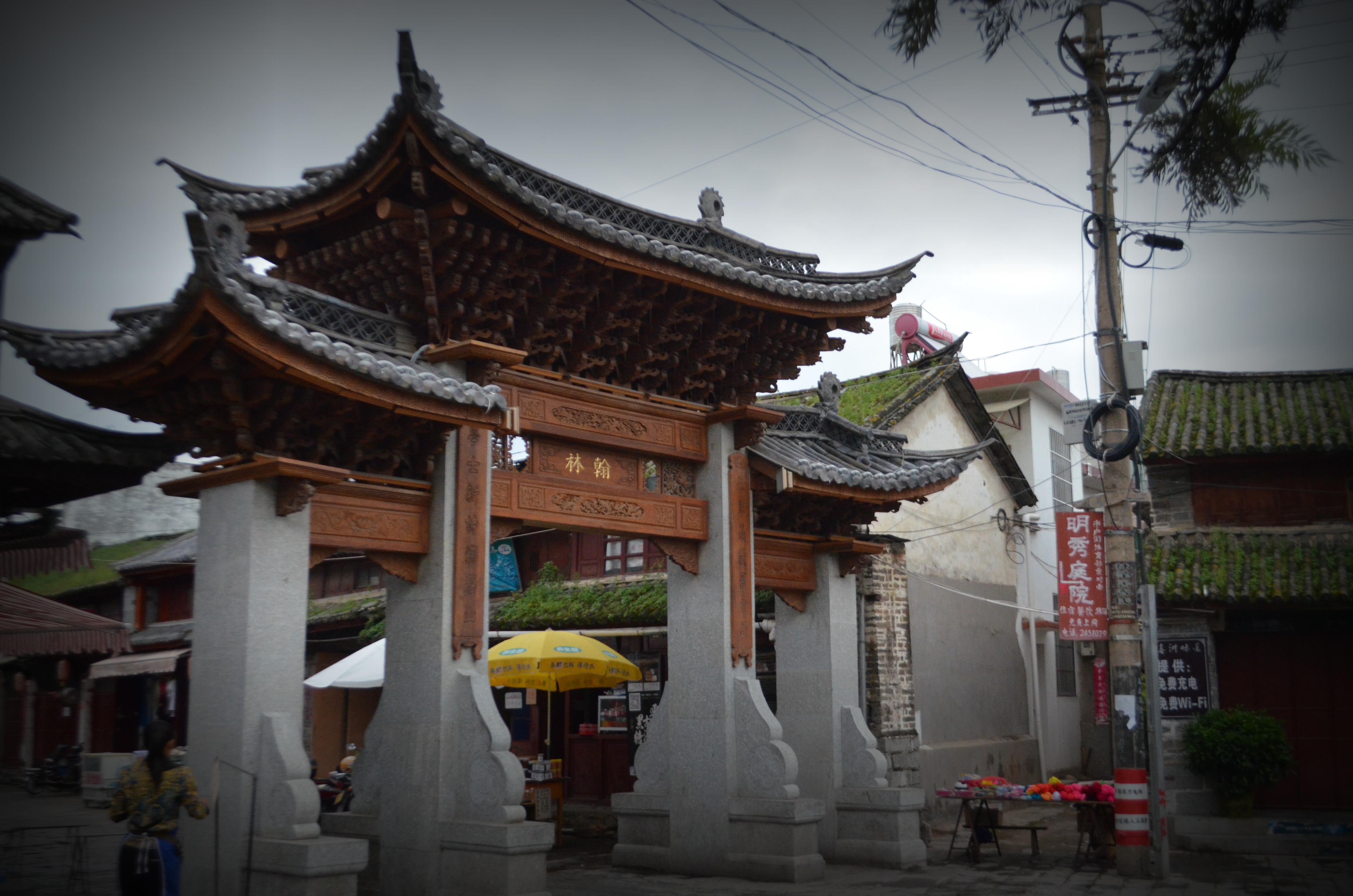 An entrance gate to Xizhou's town square (四方街)